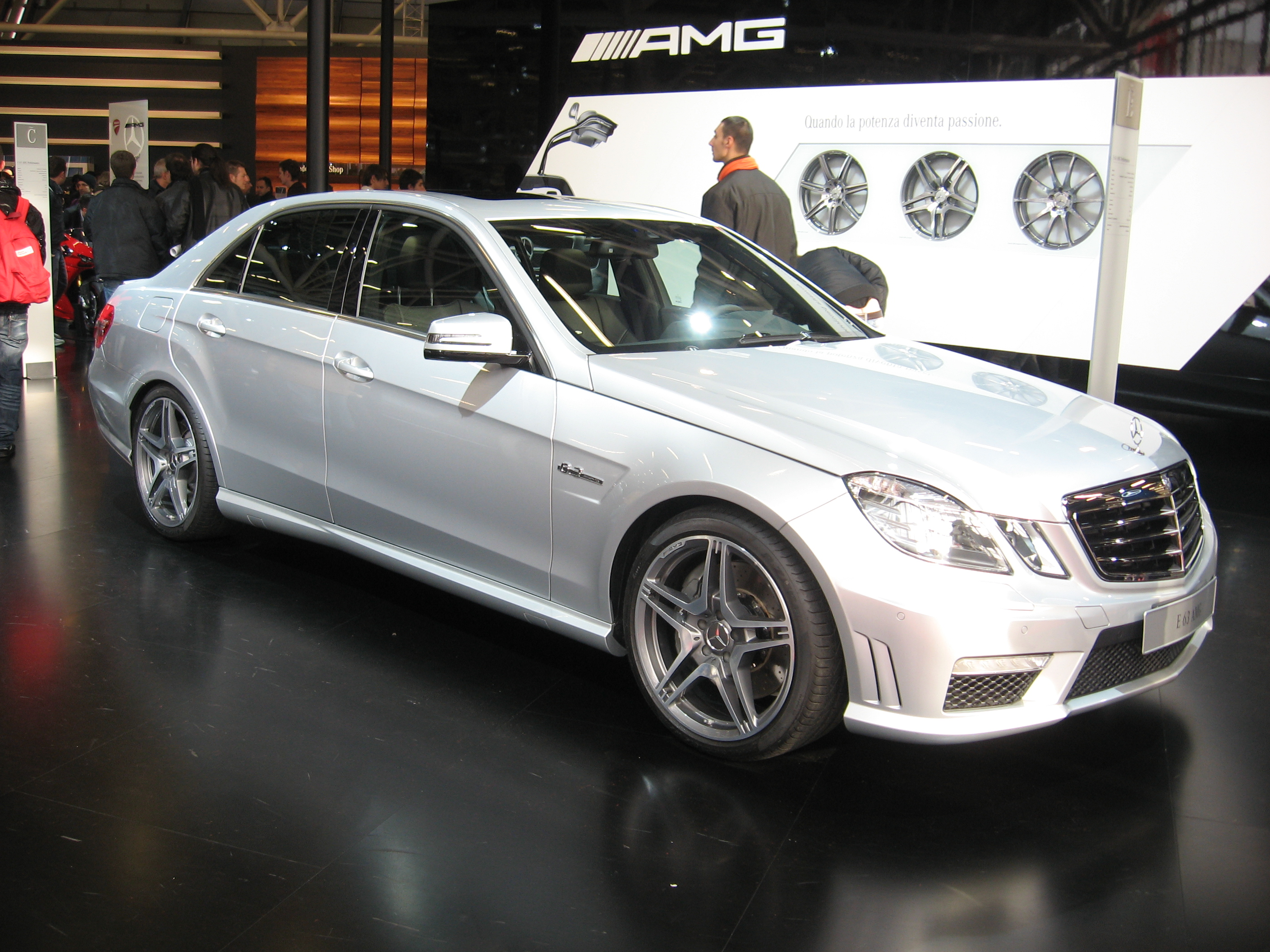 Subject: Mercedes-Benz E63 AMG W212 Date:December 5th, 2010 Event: Bologna Motor Show 2010 Place/Country: Bologna, Italy I release all rights in the public domain.